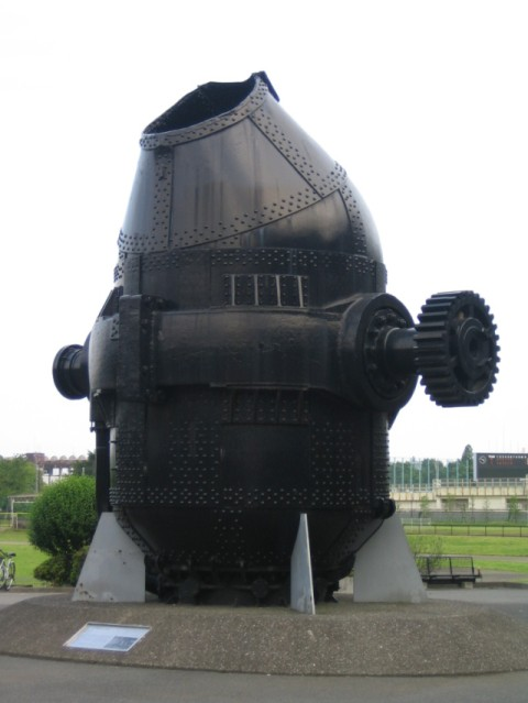 Photo by 日陰猫Joga（2006/6/4）